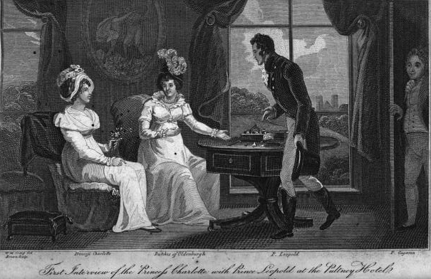 Artist's impression of the first meeting between Princess Charlotte of Wales and Prince Leopold of Saxe-Coburg-Saalfeld during the Allied sovereigns' visit to England in June 1814.